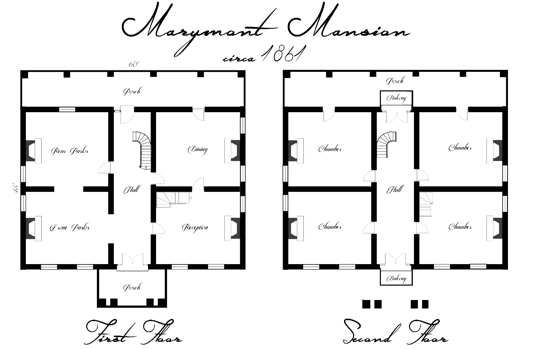 Modern floor plan of Marymont Mansion based on photographs, personal visits, and a small version in an older text